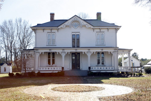 This is a photograph of the David A. Barnes House in Murfreesboro, North Carolina